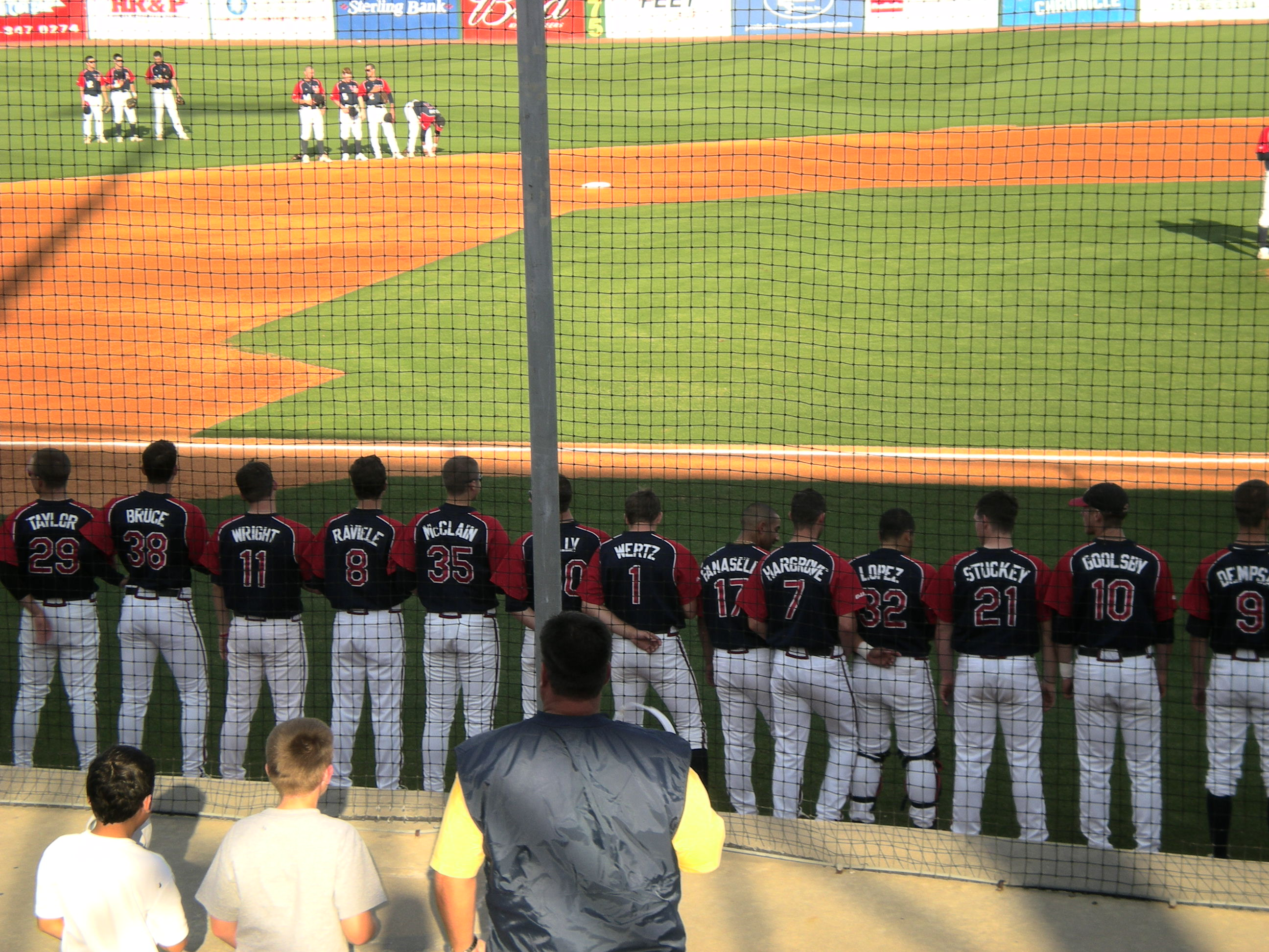 The 2008 Houston Cougars baseball team lined up at Cougar Field